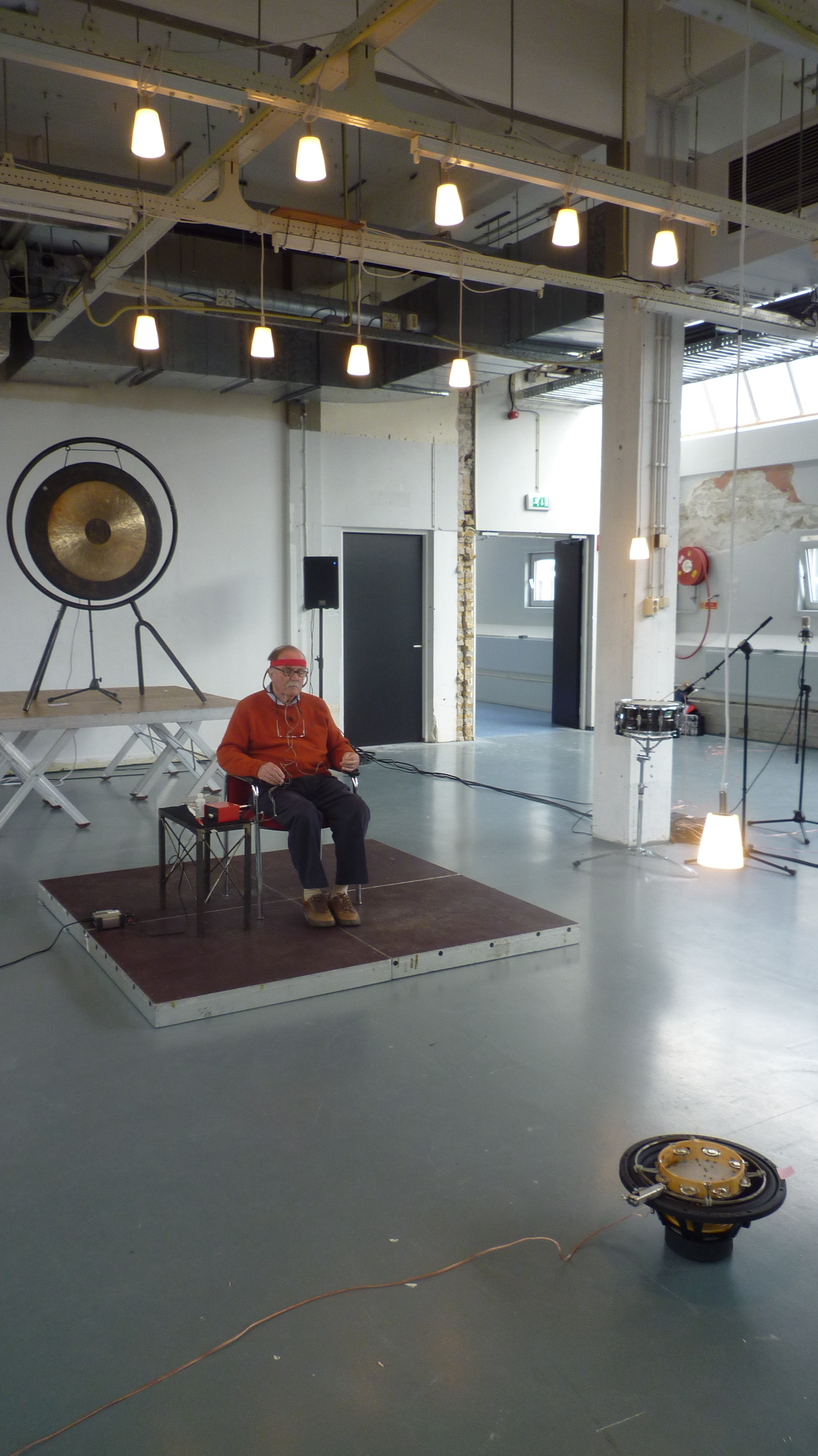 American composer and sound artist Alvin Lucier (*1931) rehearsing his piece Music for Solo Performer (1965) for enormously amplified brain waves and percussion at the festival Dag in de Branding : Alvin Lucier in Den Haag, May 28th, 2010